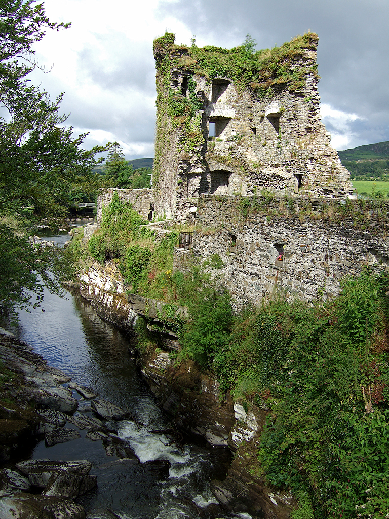 Carriganass Castle Built in about 1540 by Dermot O'Sullivan Beare, it was one of the main strongholds of the O'Sullivan Clan. Its four storey tower depicted here, is perched on a rocky base overlooking the River Owvane.